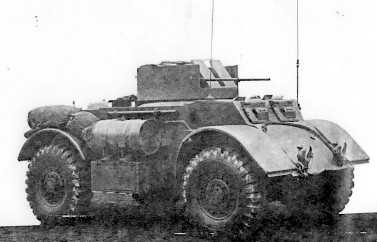 T17E2 armored car.